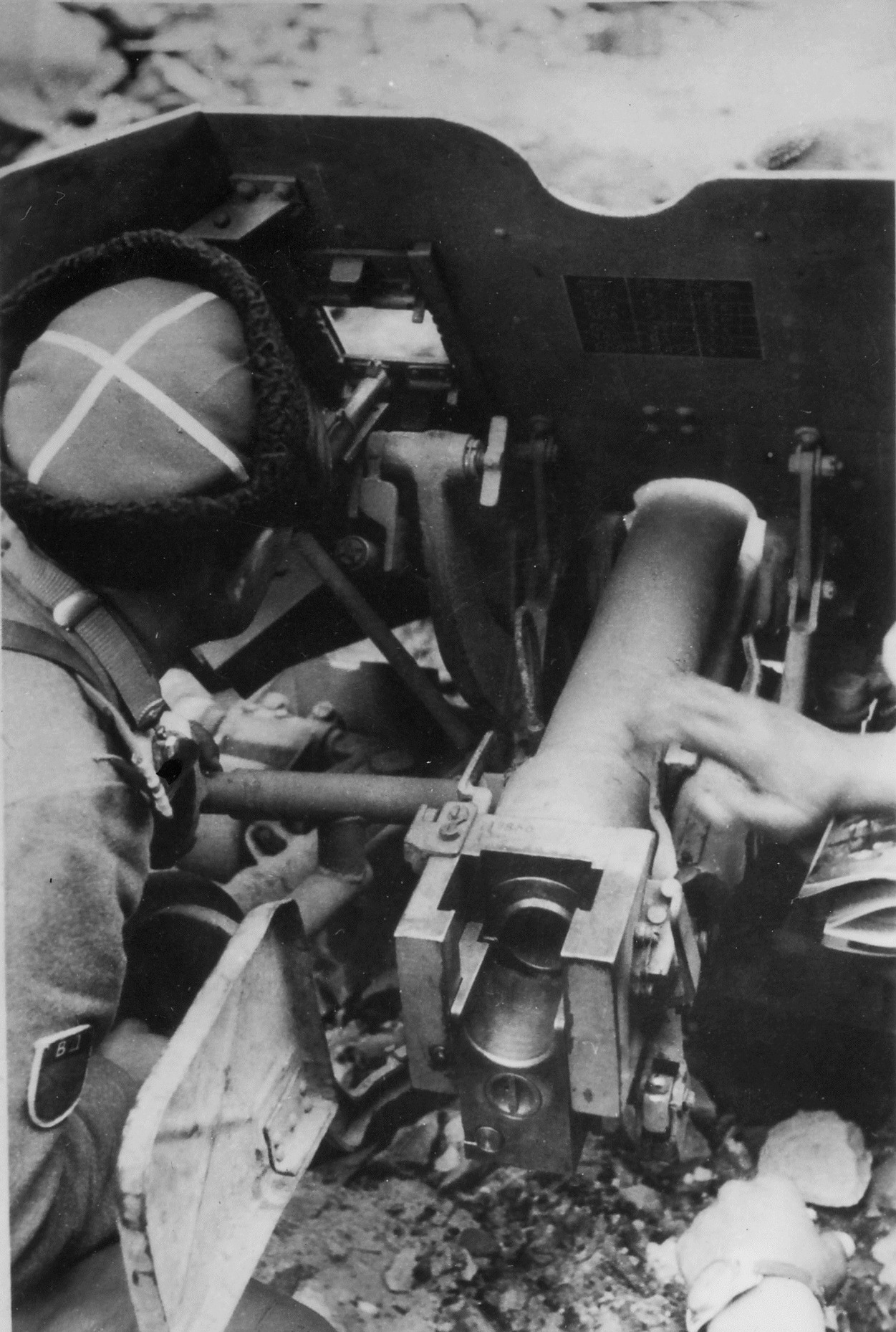 Don Cossack soldier fighting during Warsaw Uprising. Patch on the soldier's arm has "ВД" patch (see below) which stands for "Войско Донское", a Don Cossacks detachment from XVth SS Cossack Cavalry Corps.